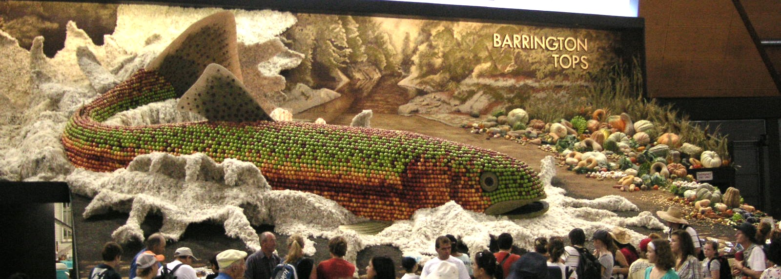 Sydney Royal Easter Show, the District Display for the Central District of New South Wales, 2009